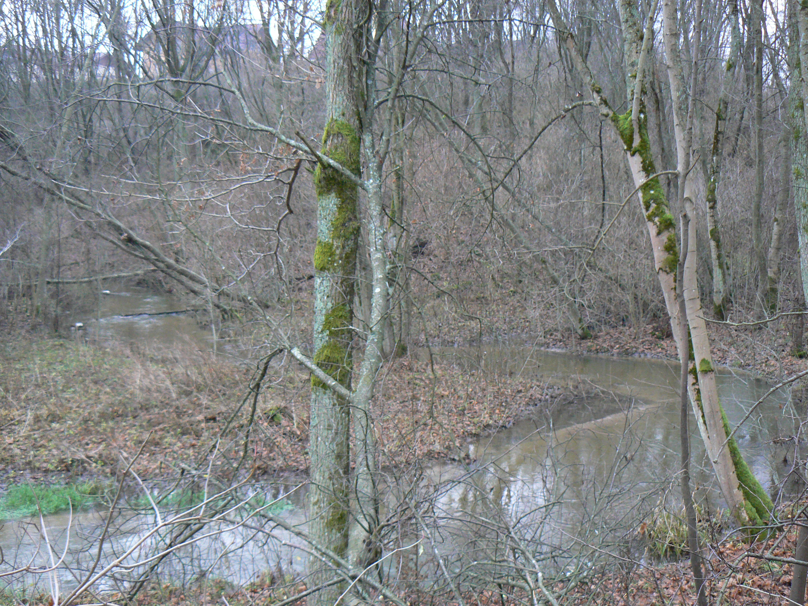 Rivulet Ringelis, tributary of Danė (Žaliasis slėnis)